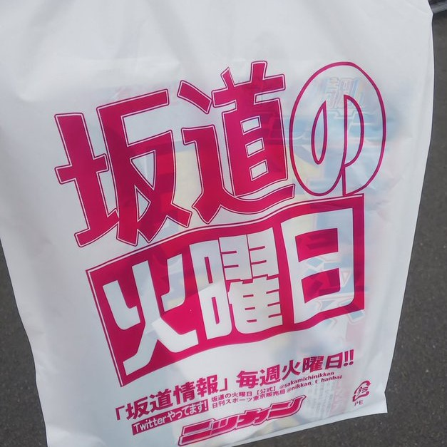 坂道の火曜日（PR用 書店手提げビニール袋）